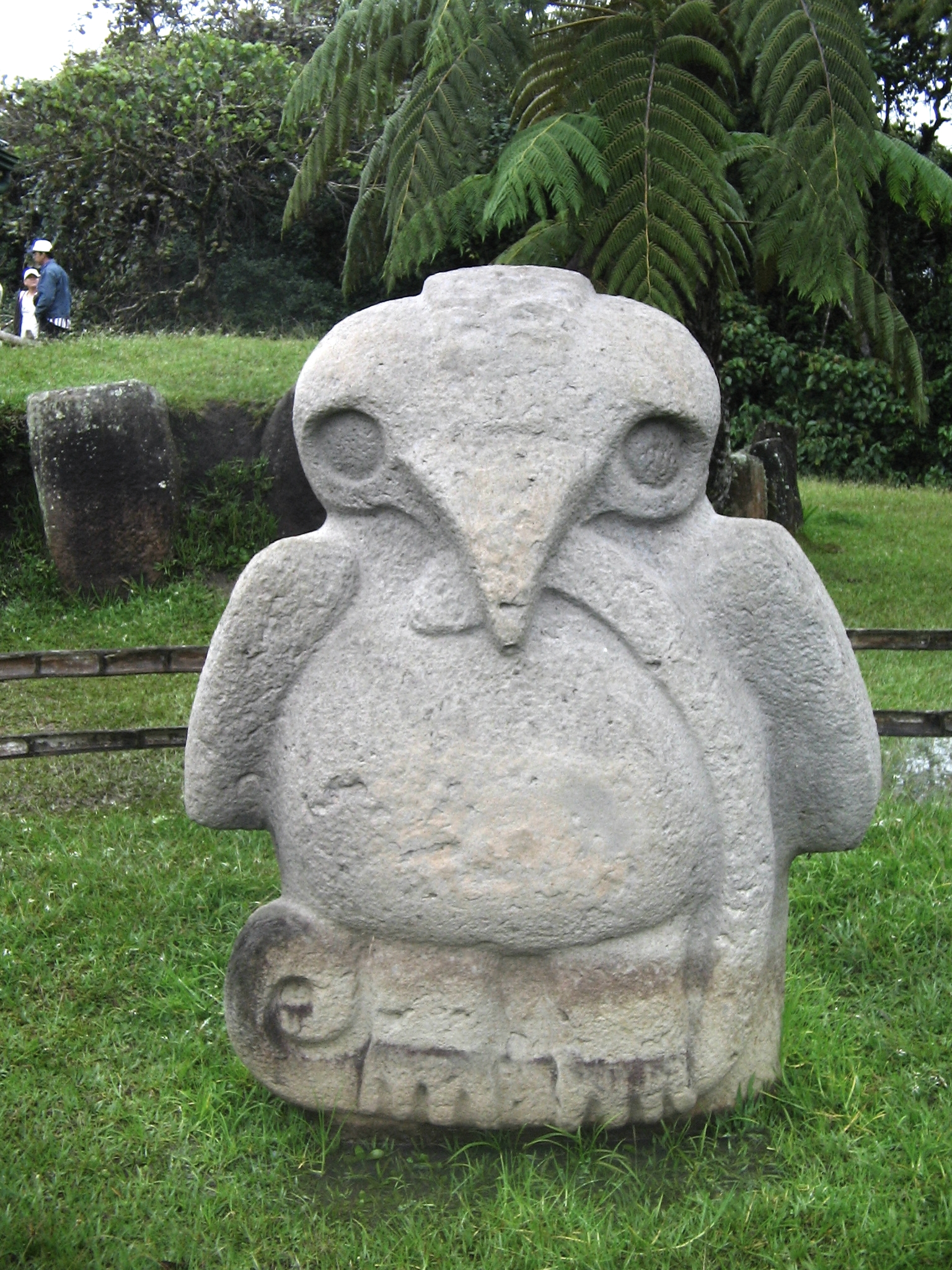 San Agustín Archaeological Park: Eagle grasping a snake in it's beak and claws. It is located at Mesita B, in front of NW mound, facing nearly due East. It is 174 cm high, 135 cm wide and 36 cm thick.[1]